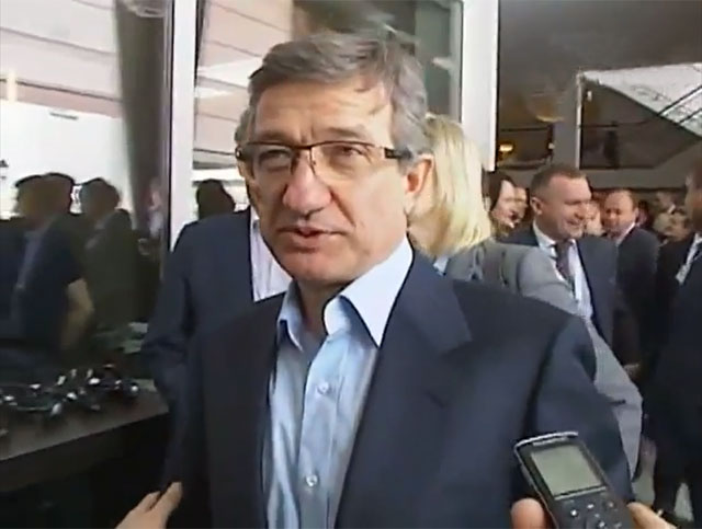 Serhiy Taruta, Ukrainian businessman